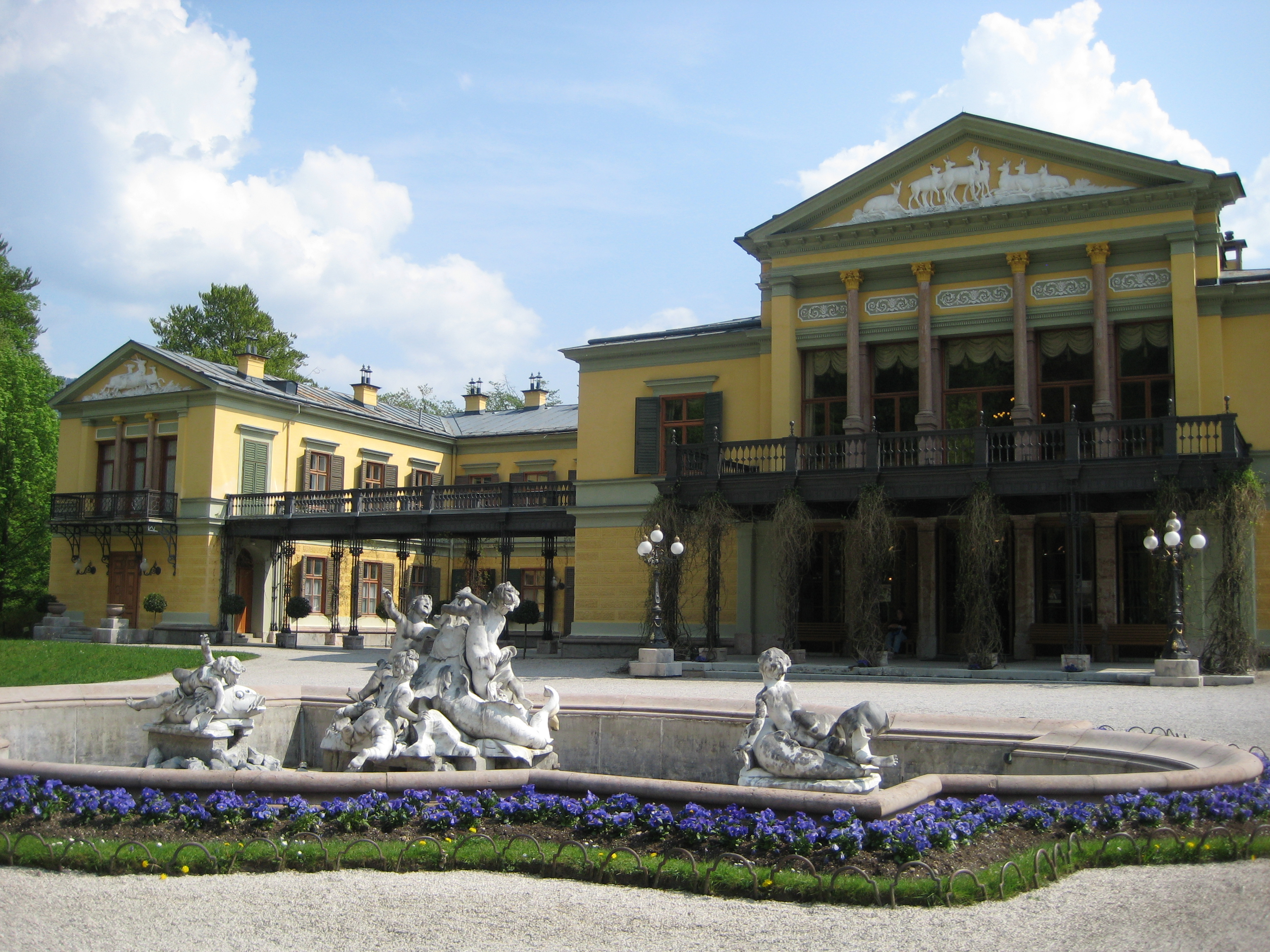 Bad Ischl, Kaiservilla